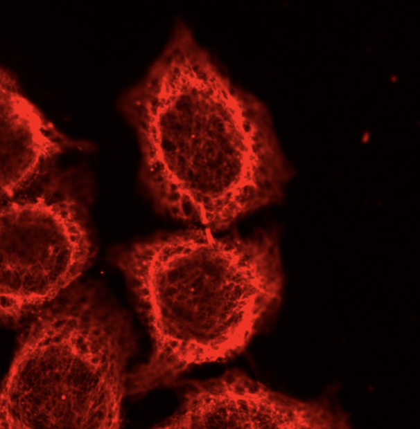 A middle stage midbody can be seen with tubulin staining